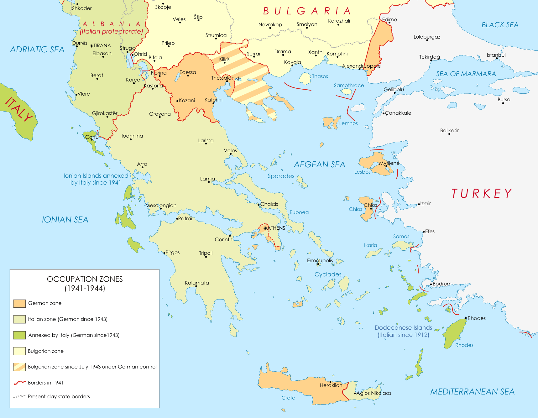 Map of Greece during WWII